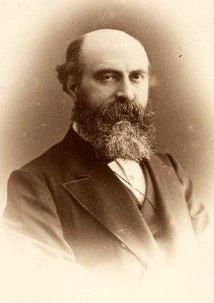 Portrait of Eduard Saavedra